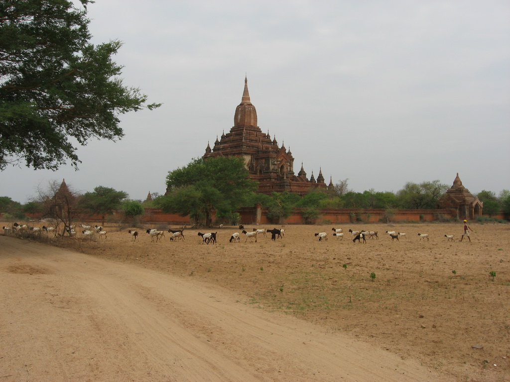 Sulamani Temple, Bagan, Myanmar-Burma